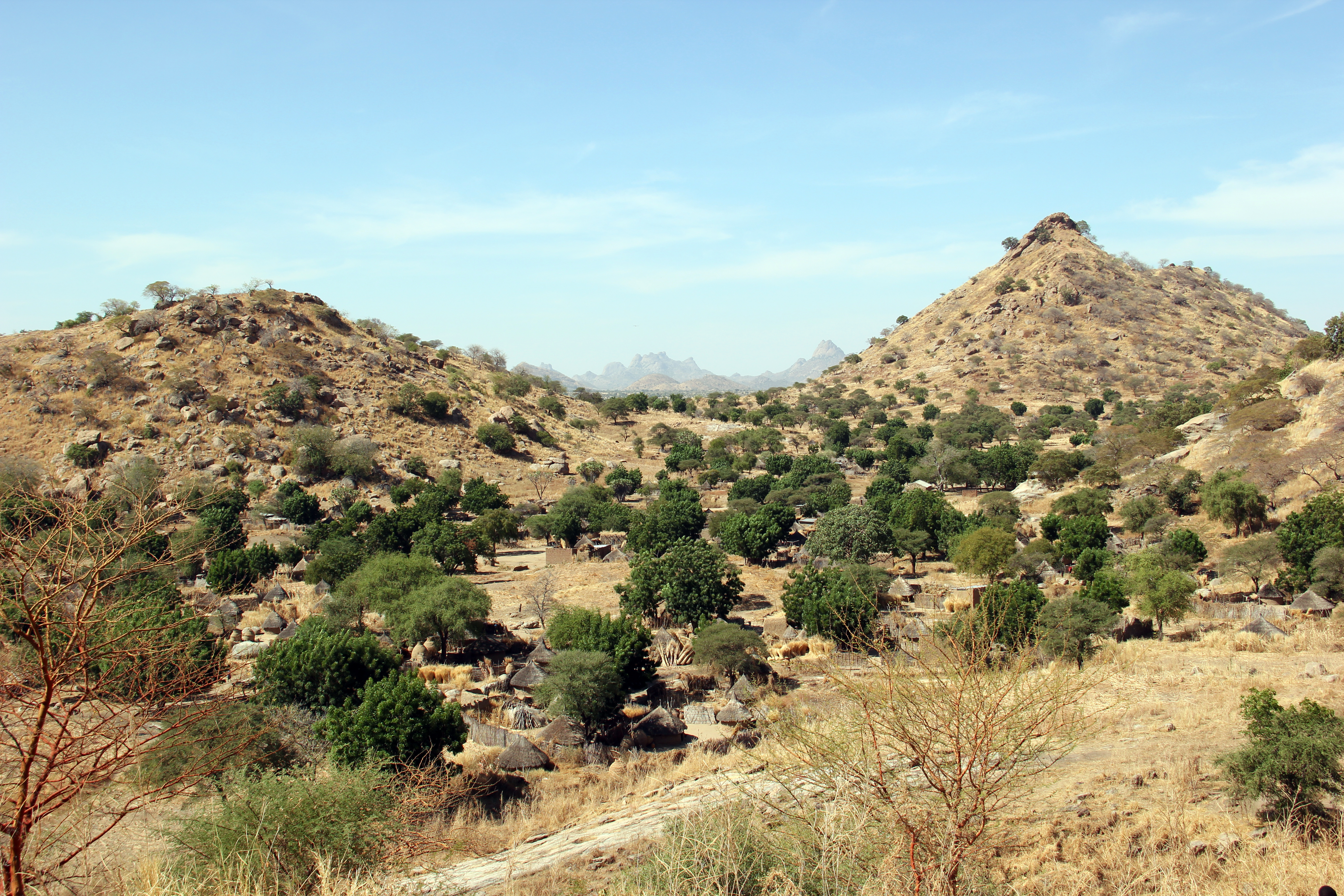 granitic landscape of Guéra, central Chad